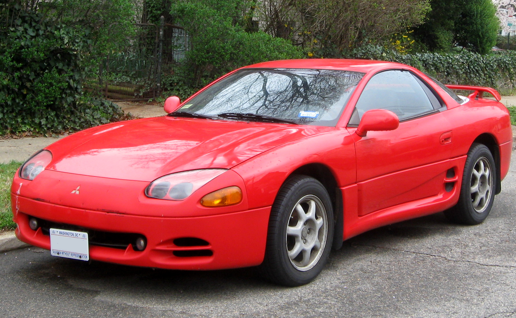 Mitsubishi 3000GT photographed in Washington, D.C., USA.